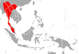 Shield-faced Roundleaf Bat (Hipposideros lylei) range